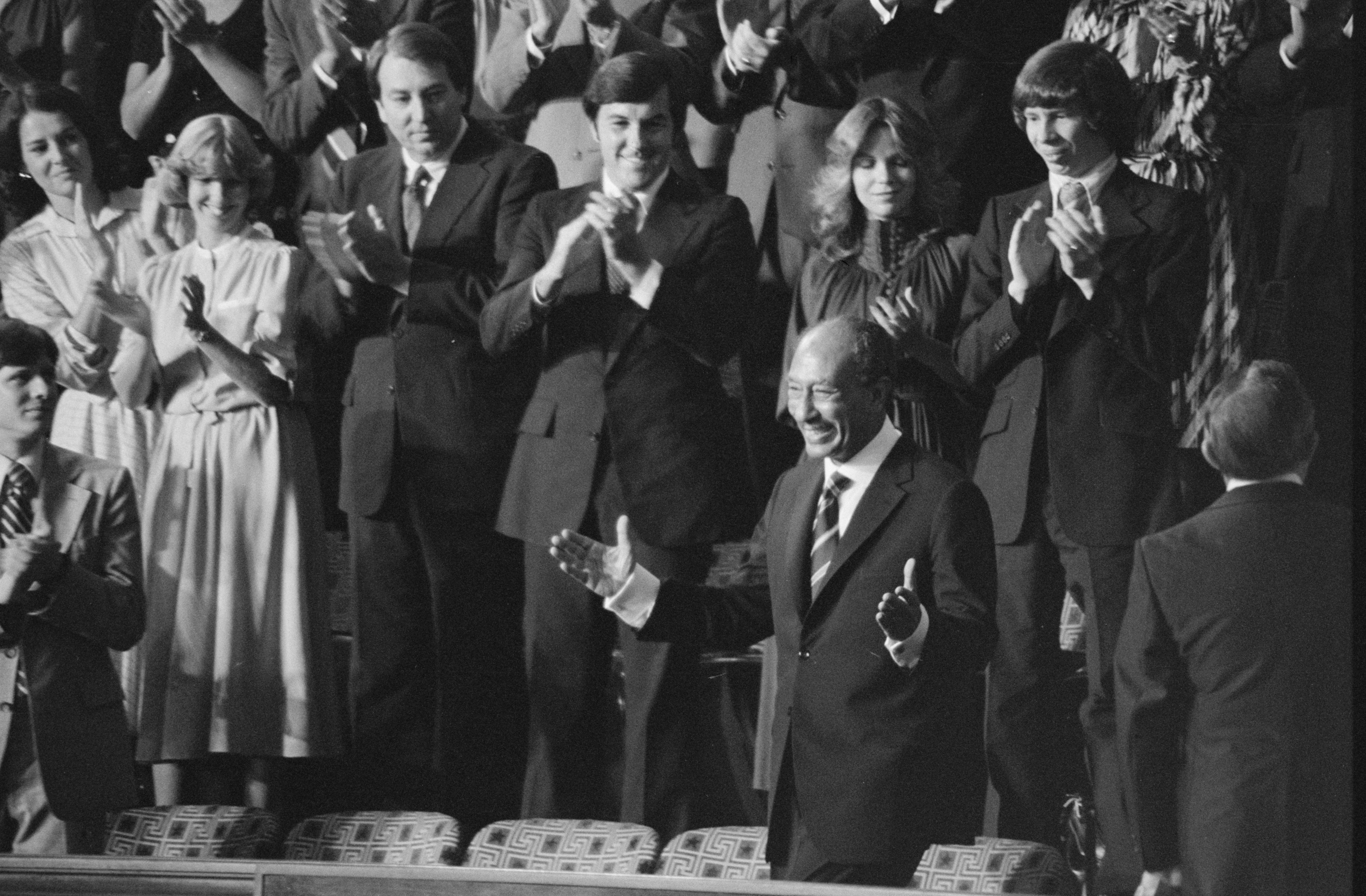 Library of Congress description: "Egyptian President Anwar Sadat acknowledges applause during a Joint Session of Congress in which President Jimmy Carter announced the results of the Camp David Accords"